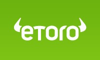 Etoro's TM logo